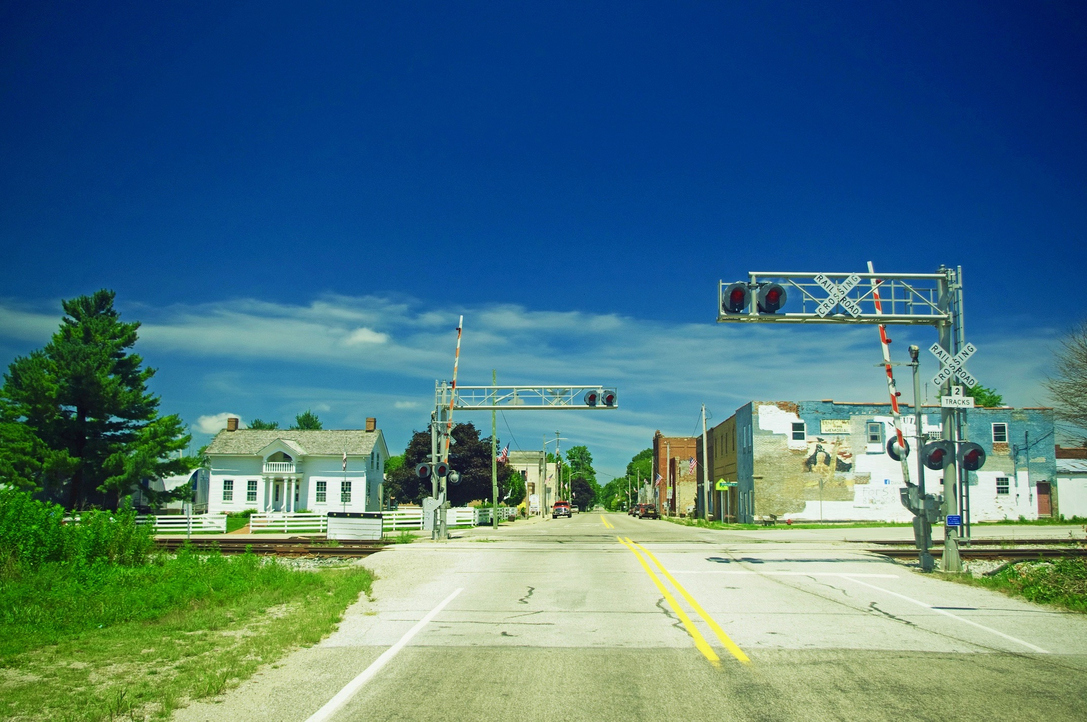 View along Maple Street (Indiana State Road 71) in Dana, Indiana, United States